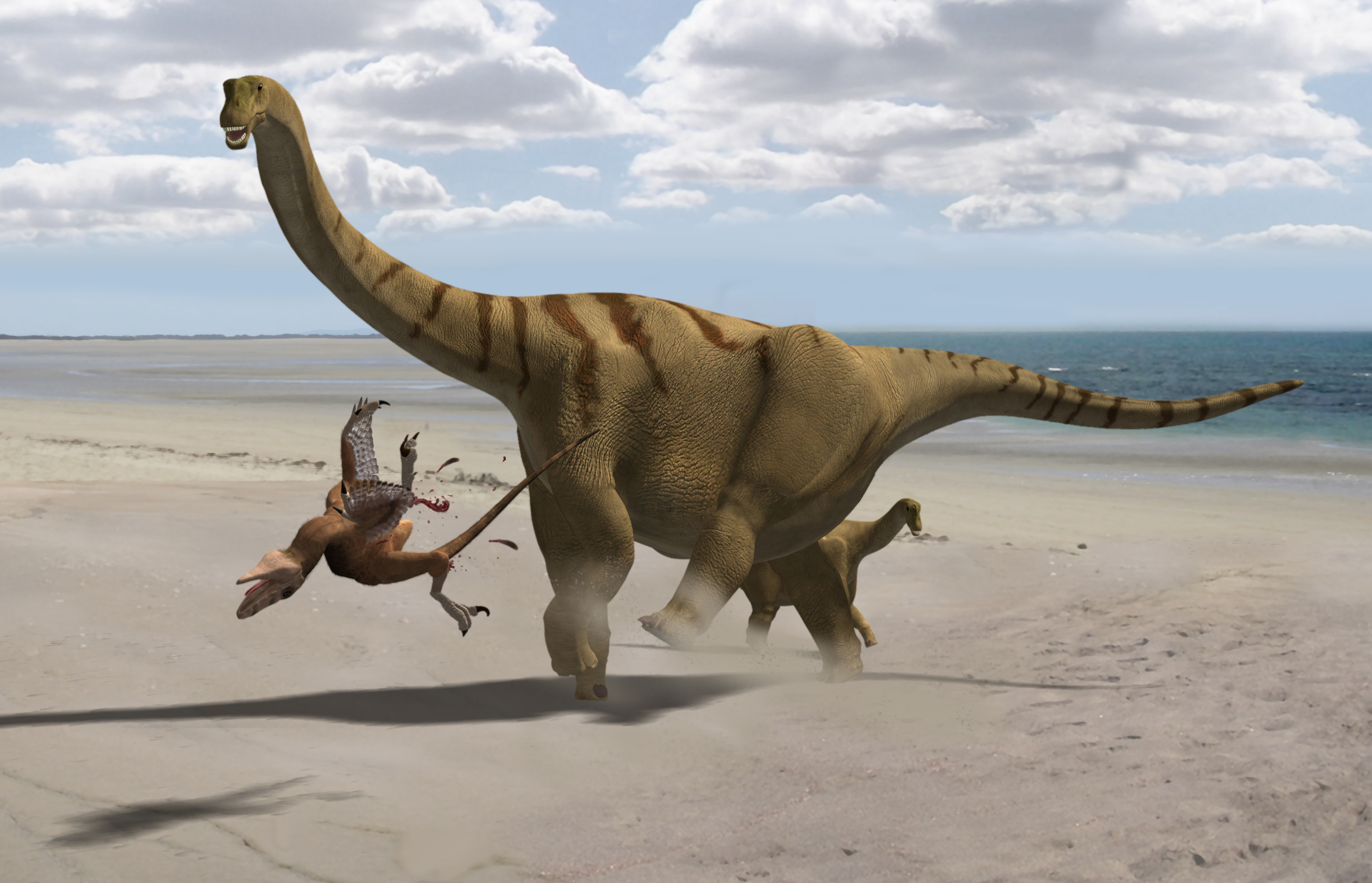 Brontomerus mcintoshi may have had a powerful kick due to large abductor muscles. Here an adult is protecting a juvenile from a Utahraptor.